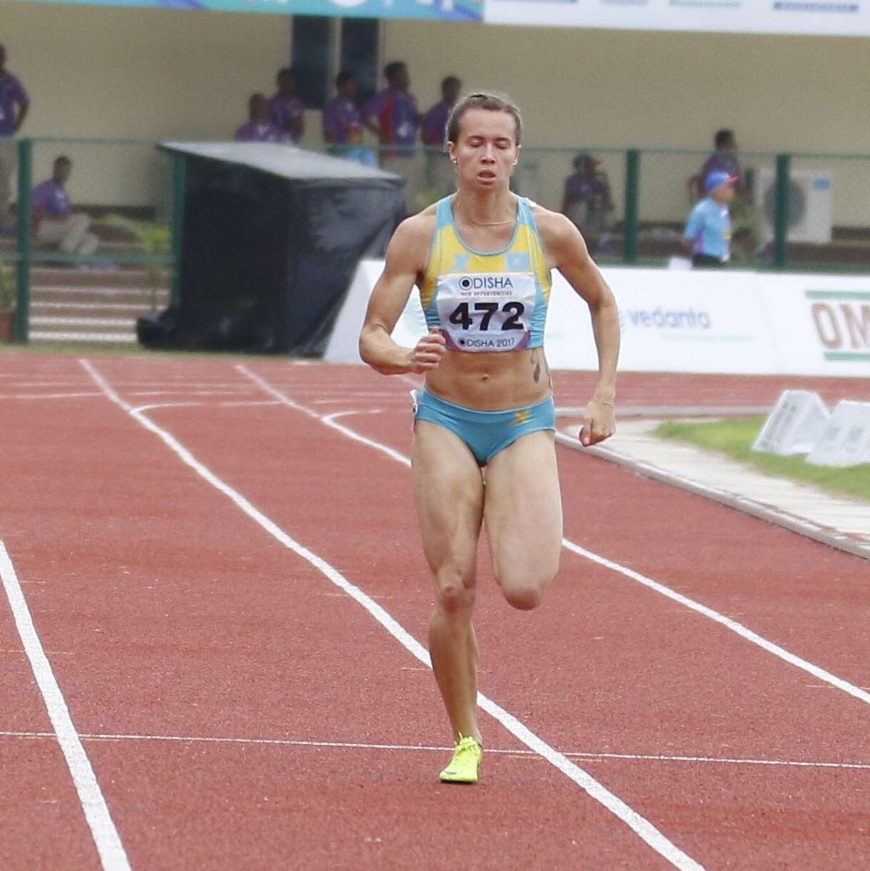 Athletes during 22nd Asian Athletics Championships in Bhubaneswar. inc. Olga Safronova